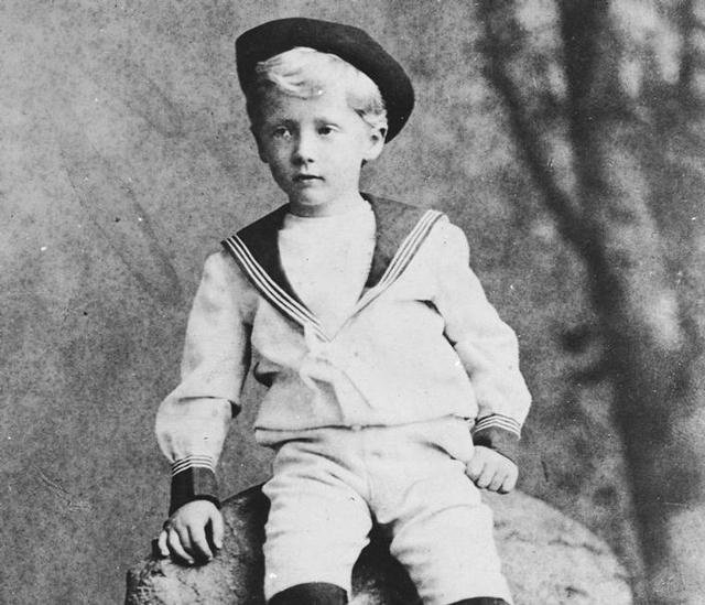 George S. Patton